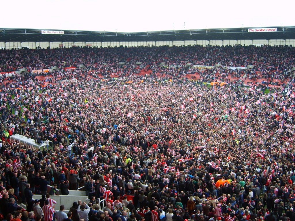 Approximately 18,000 Stoke City fans invade the pitch at the Britannia Stadium to celebrate Stoke's promotion to the Premier League on 4 May 2008.